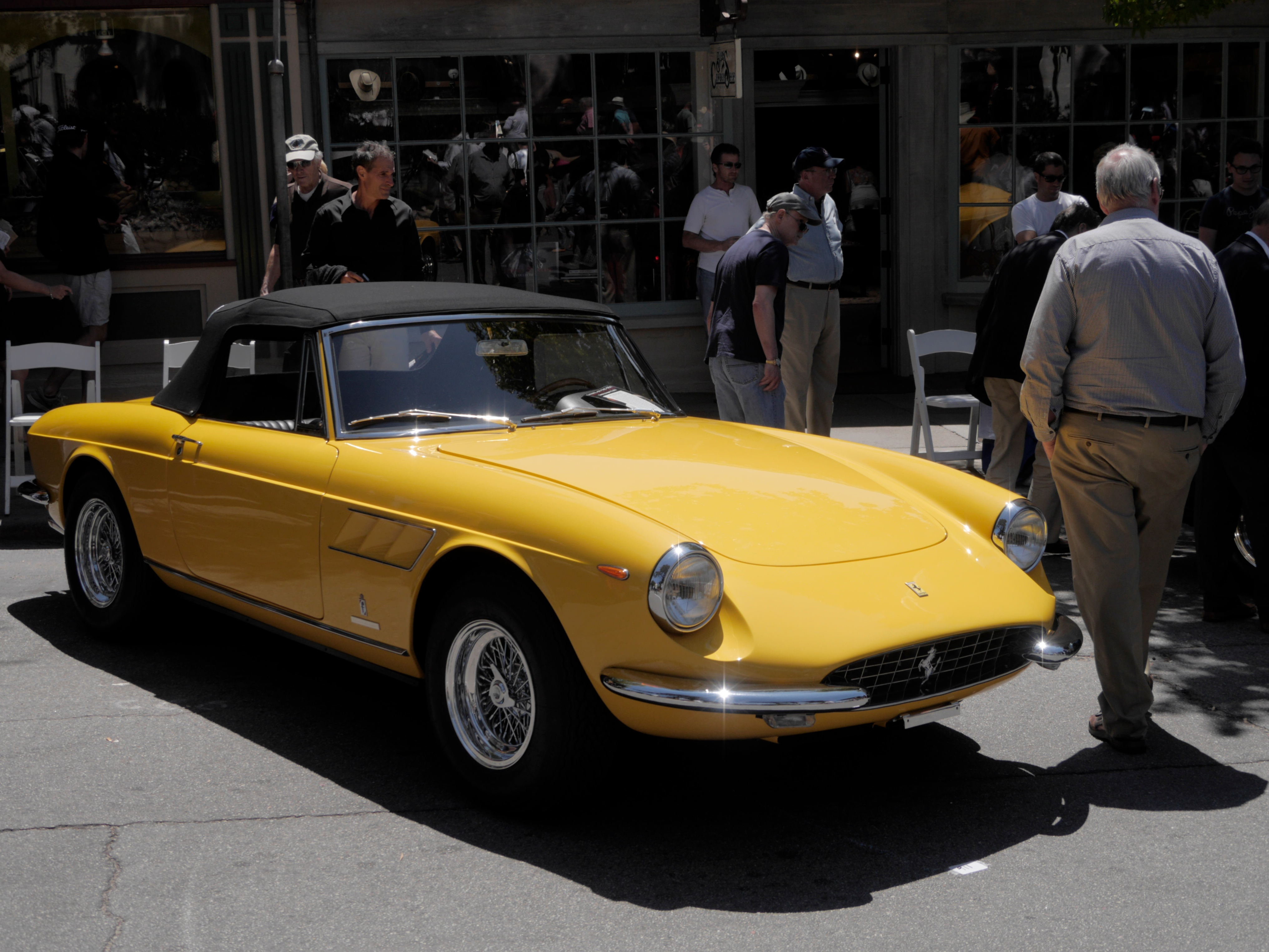 Concours on the Avenue 2014